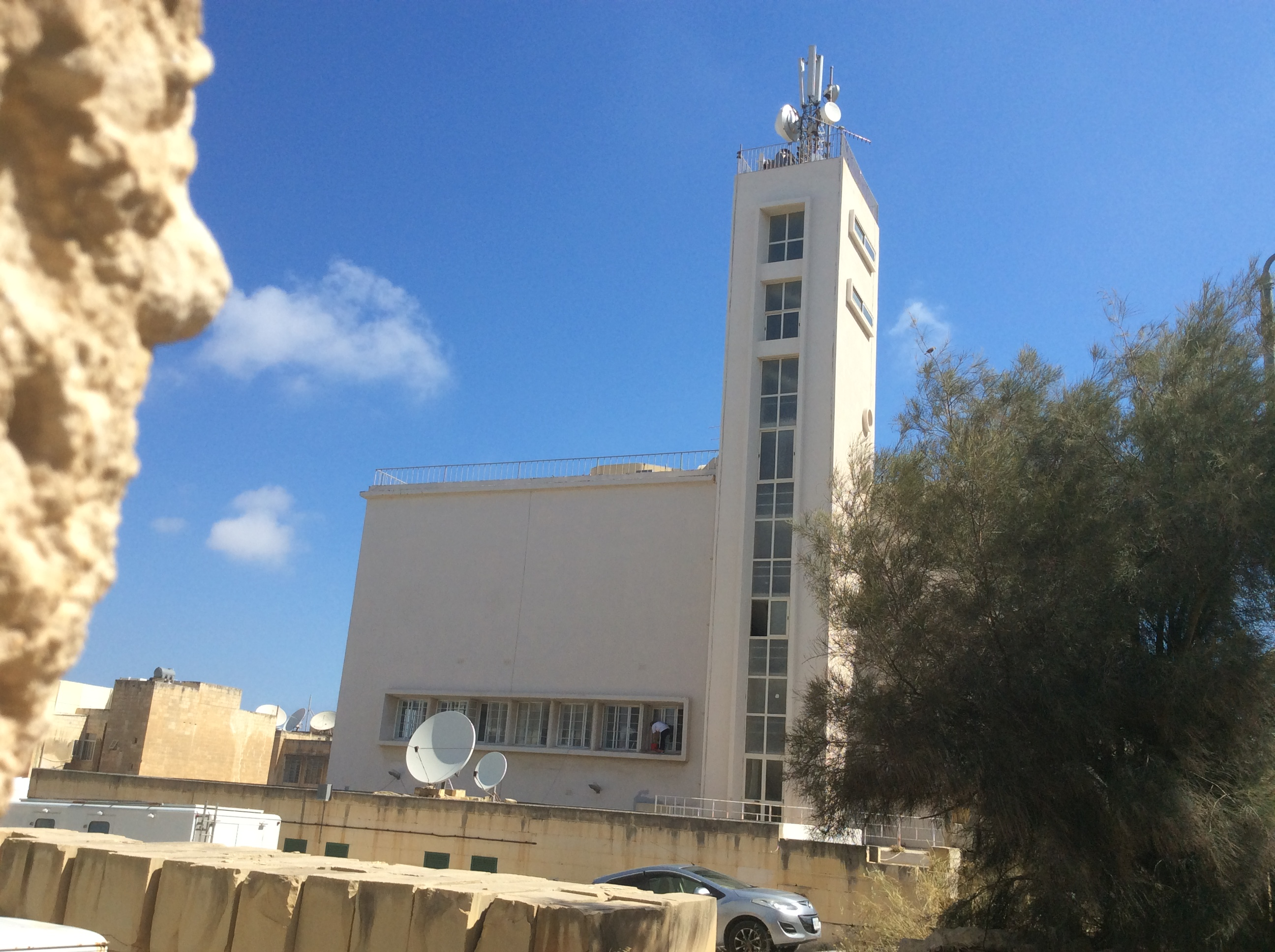 Pieta after building collapse